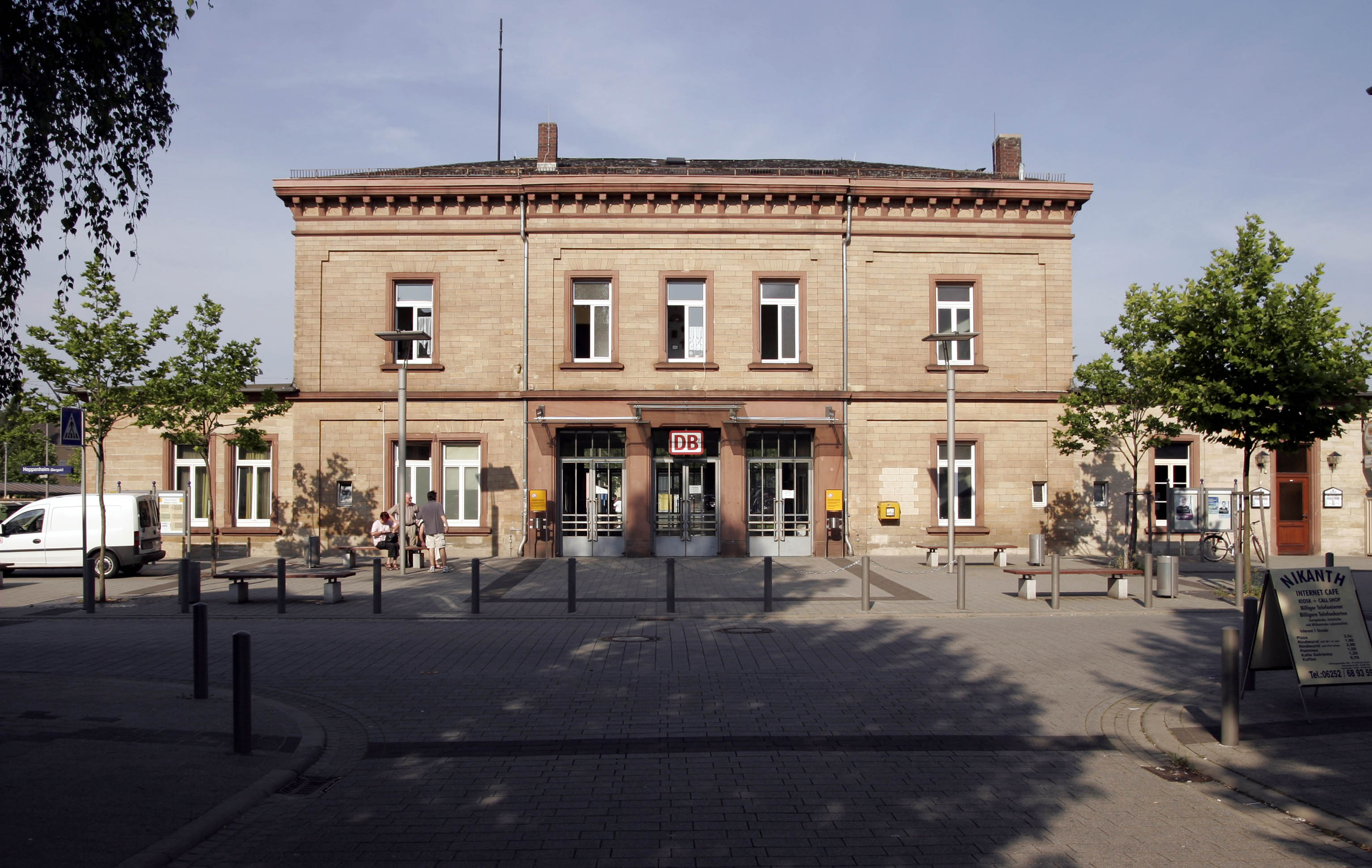 Railwaystation Heppenheim (Bergstraße), Germany.